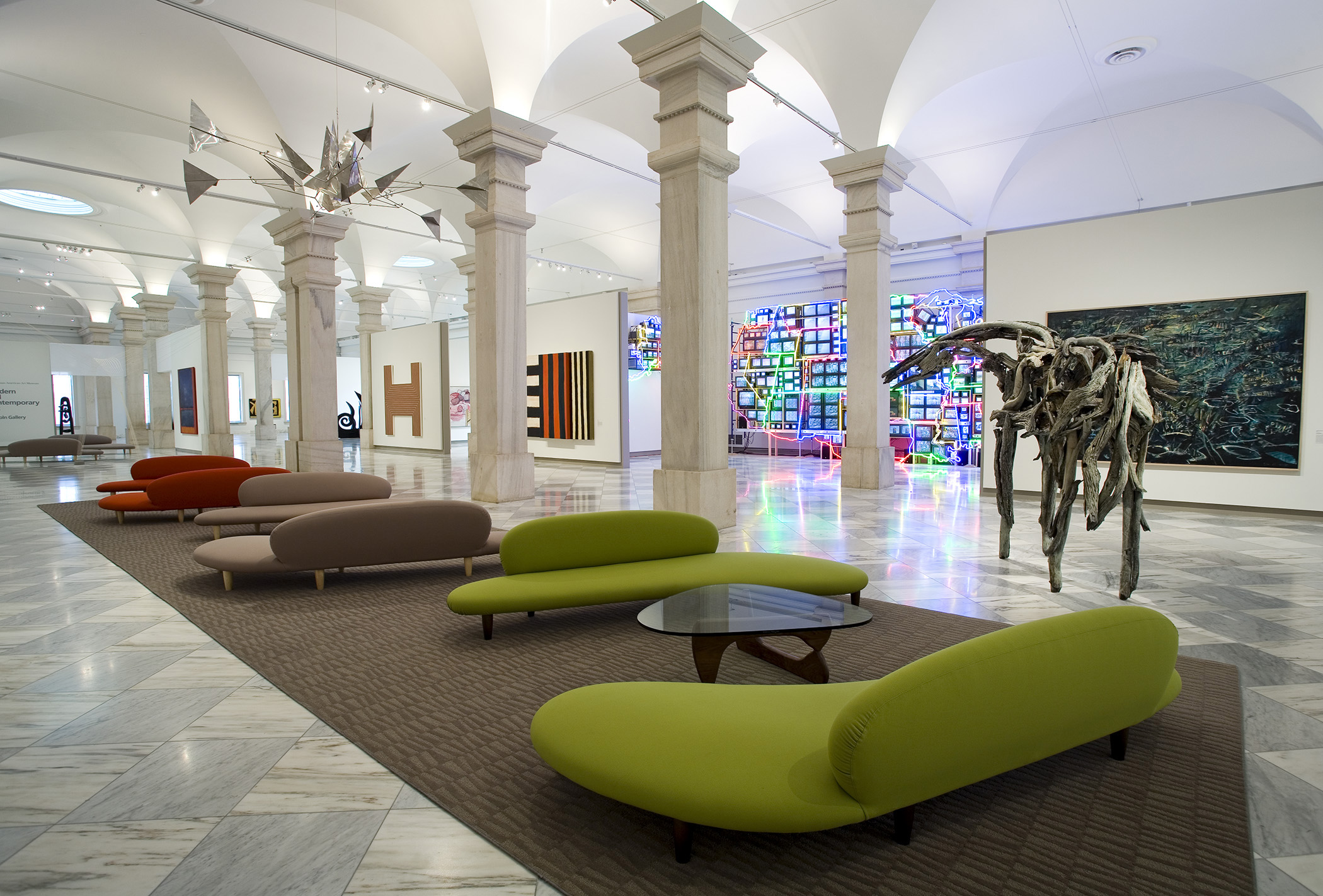 View of the Lincoln Gallery (Modern and Contemporary Art) on the third floor of the Smithsonian American Art Museum